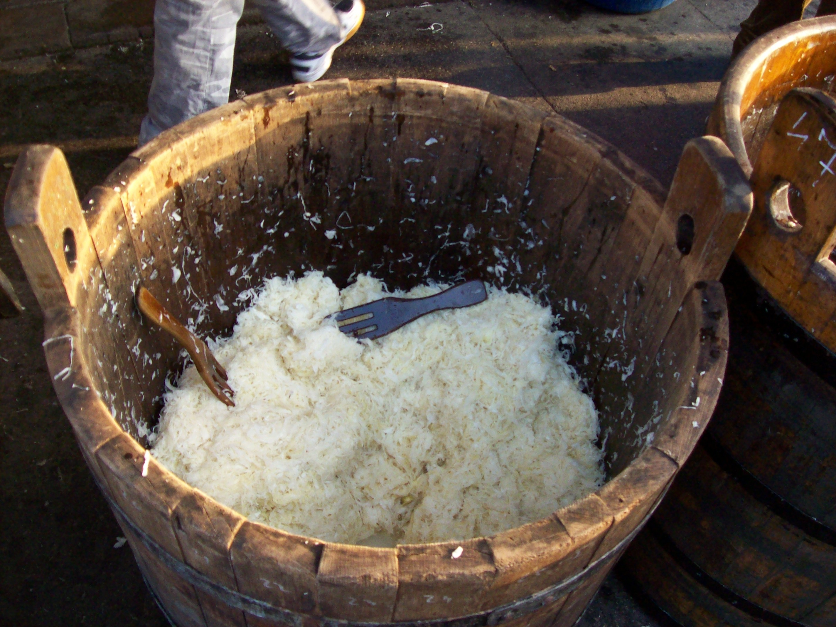 Naschmarkt in Vienna, Austria.